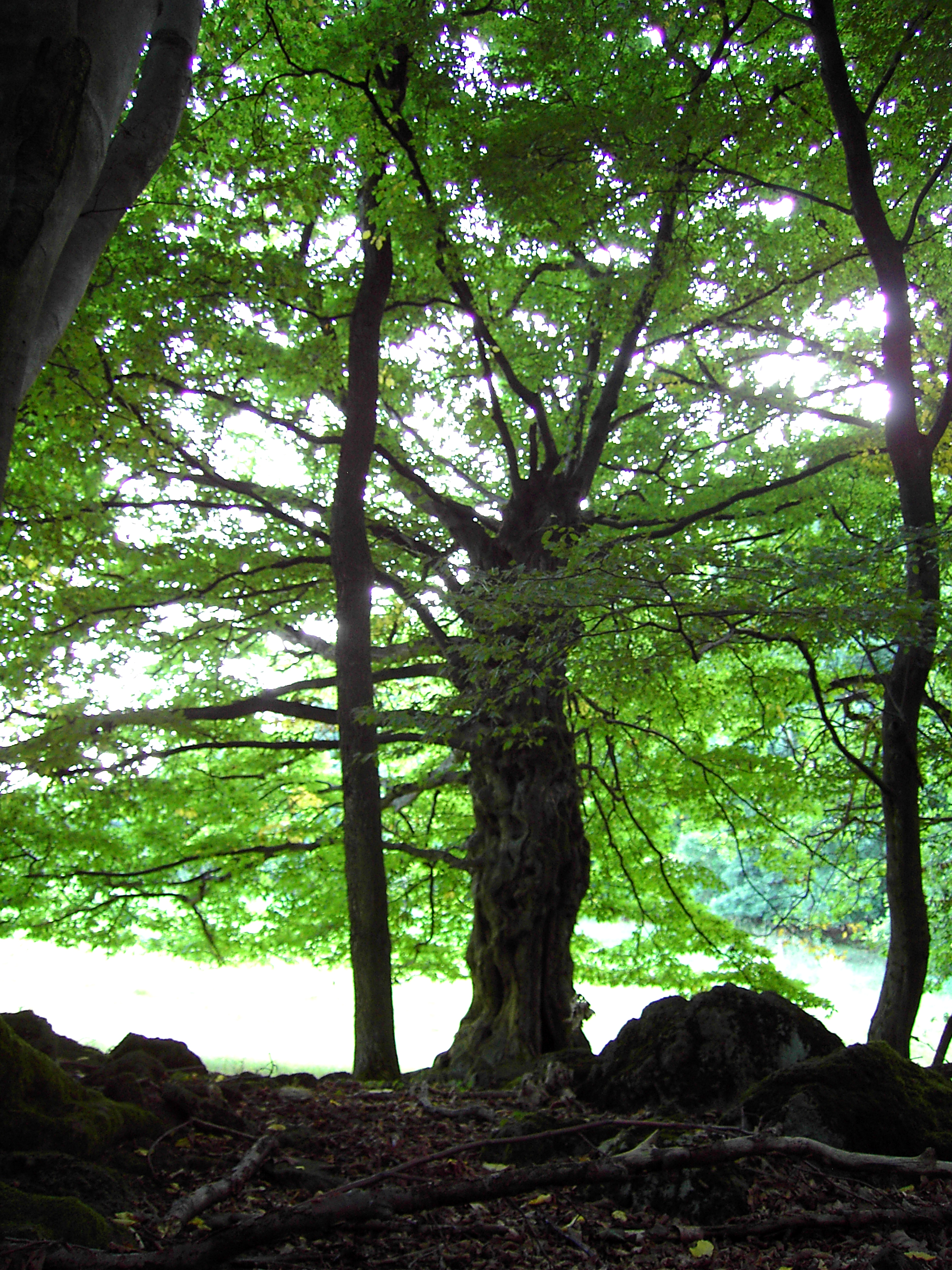 Village of Rückers (Flieden, Landkreis Fulda) - natural monument